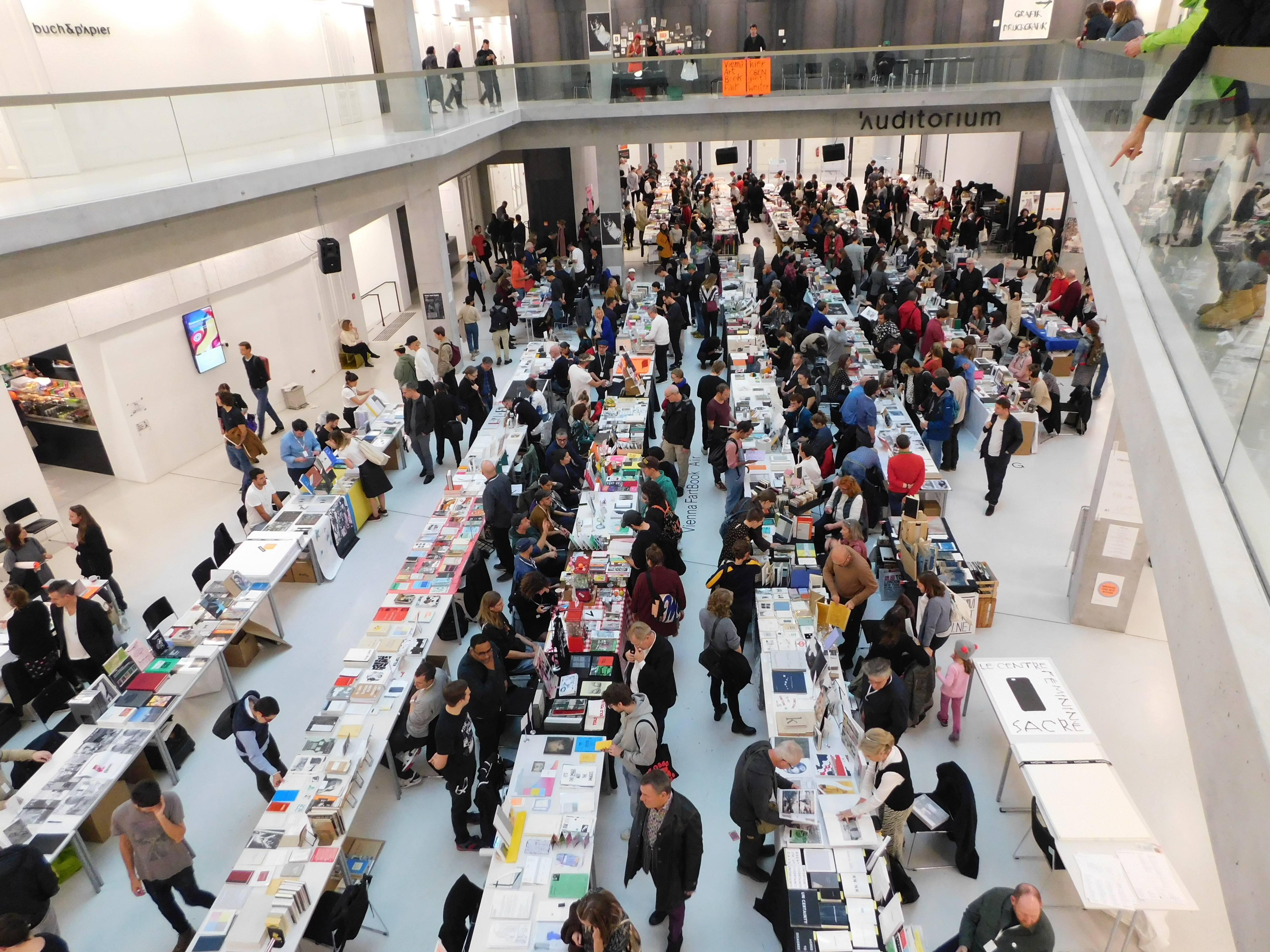 Vienna Art Book Fair 2019 (dieAngewandte - University of Applied Arts Vienna, Vordere Zollamtsstraße 7, 1030 Vienna)